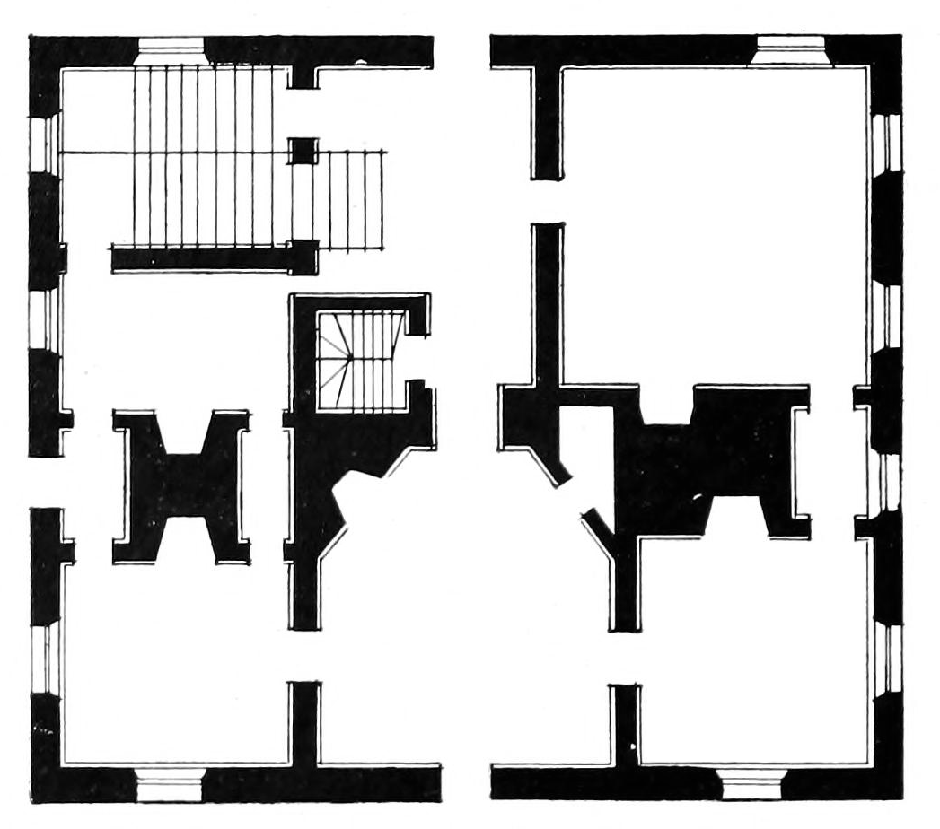 Plan of the Governor's Palace at Williamsburg, Virginia (from the original, years prior to its reconstruction; not showing the ballroom extension out the rear). From Domestic Architecture of the American Colonies and of the Early Republic by Fiske Kimball, available at the Internet Archive (cropped and cleaned)